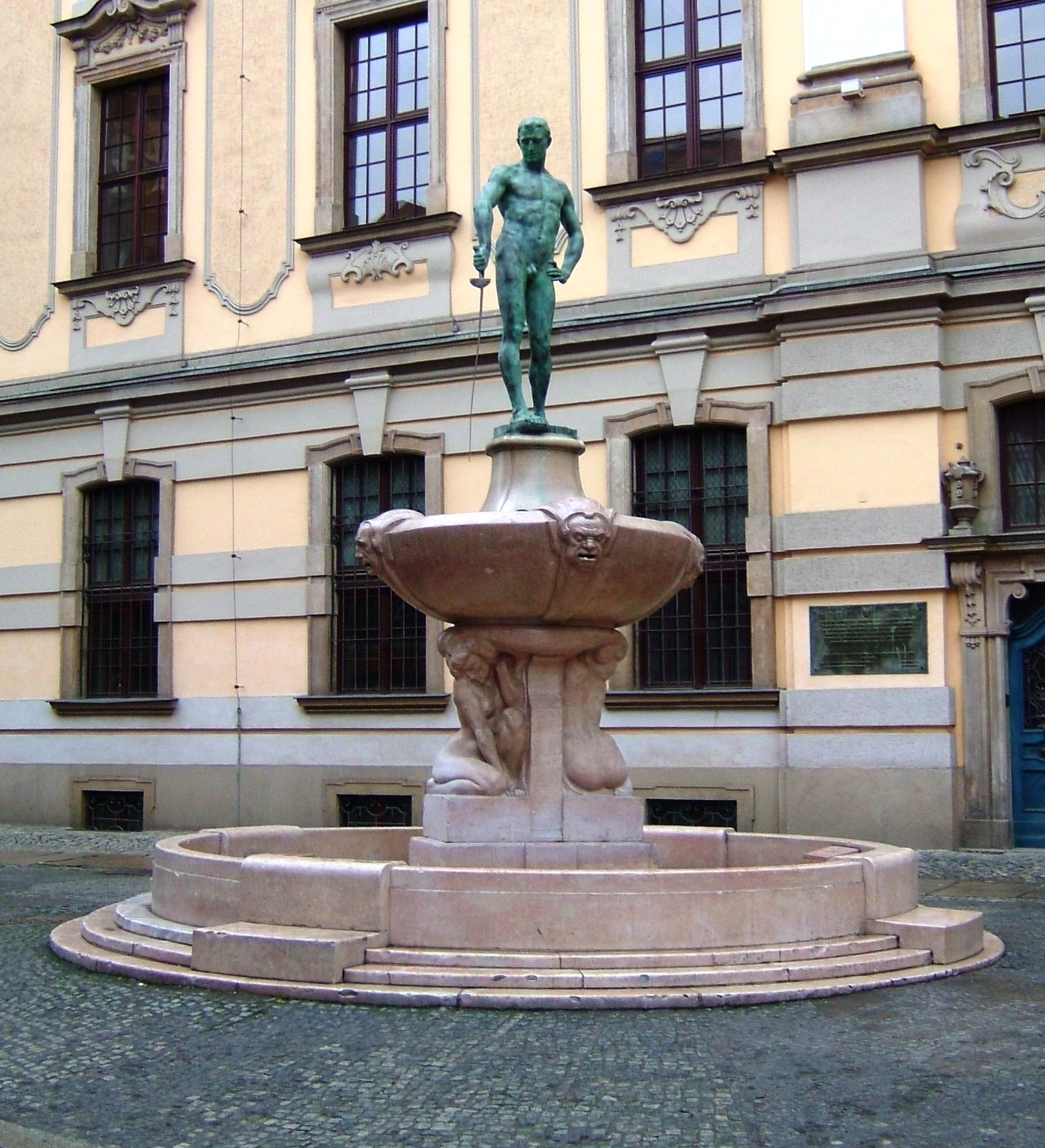 "The Fencer" - a monument behind the university. Wroclaw.